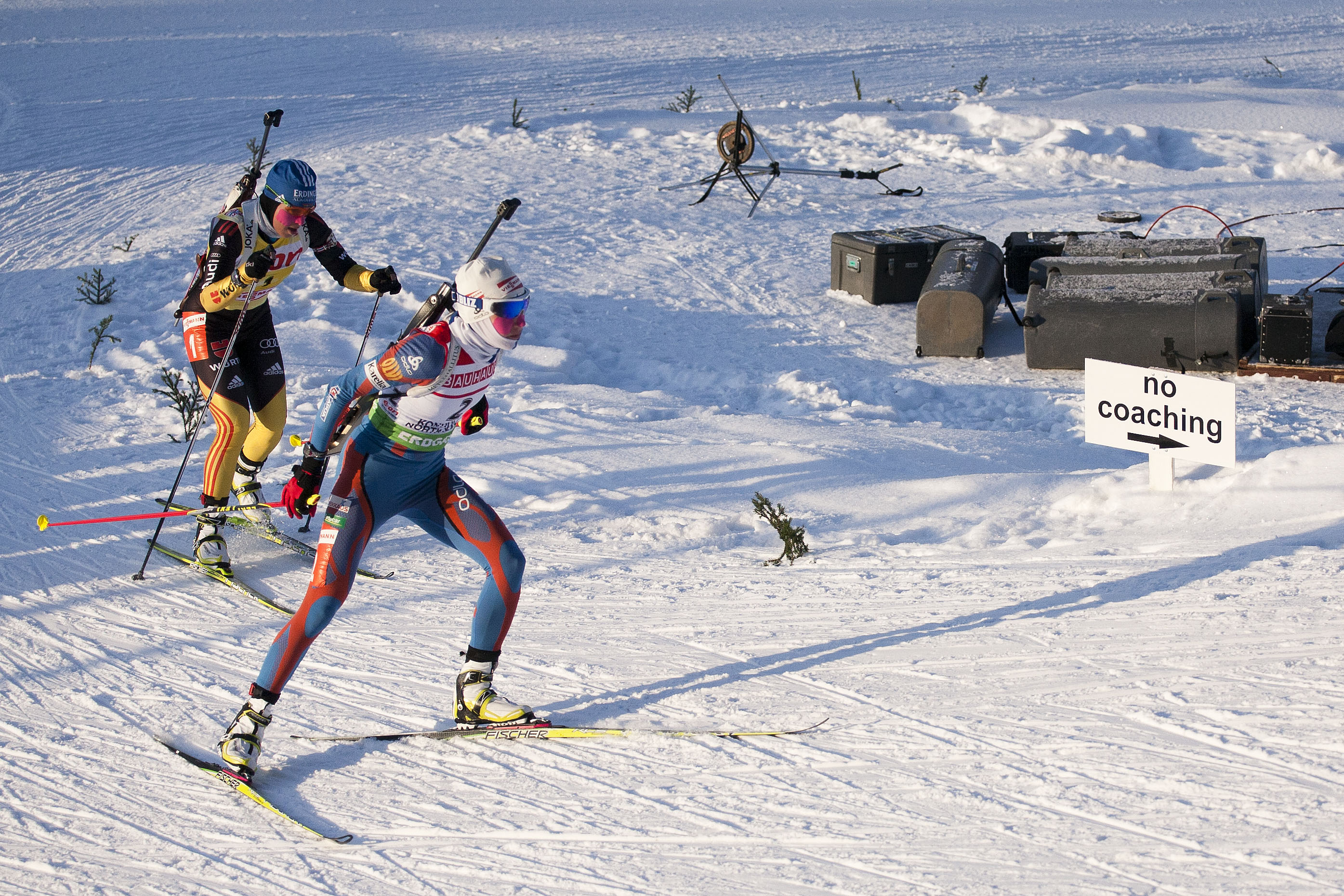 Magdalena Neuner, Kaisa Mäkäräinen (in front), E.ON IBU WORLD CUP 8 BIATHLON - Kontiolahti (FIN)